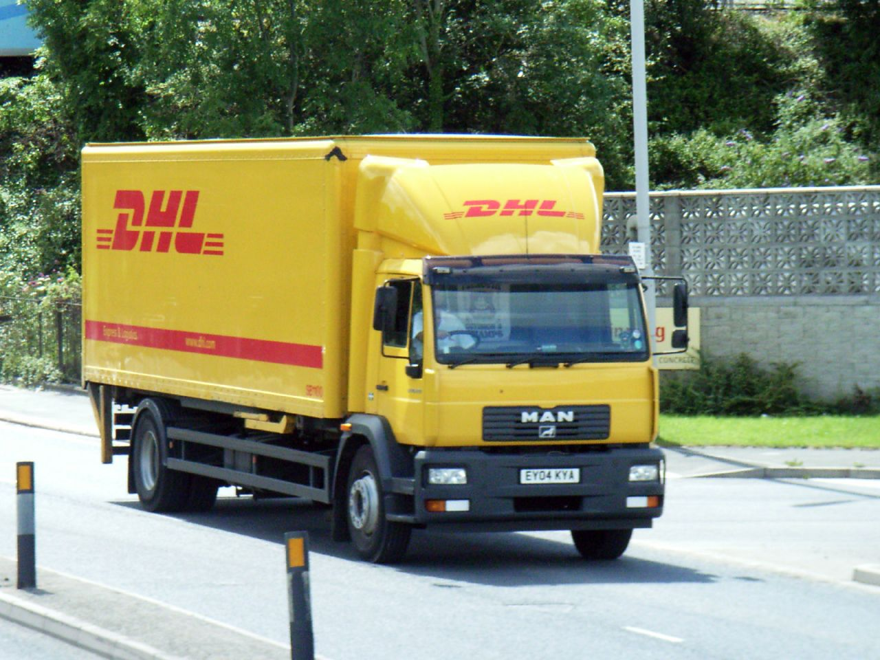 DHL EY04KYA MAN SKELETAL VEHICLE 6870cc (16/08/2004) DIESEL As Featured in On The Road Plymouth A 2 Z